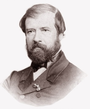 photograph of Jules Célestin Jamin (1818–1886)